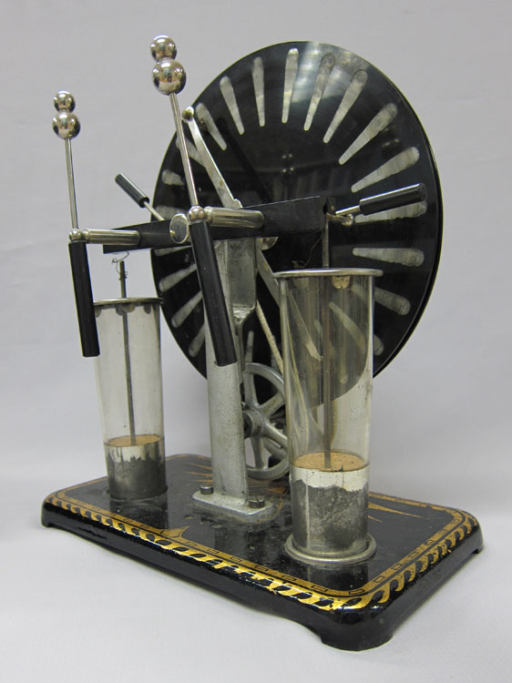 Wimshurst Machine: metal base with black and gold enamel surface decoration; mounted on base are 2 voltage capacitors (Leyden jars) with insulated terminals and two large disks attached to pulley gears and rope; two metal ball attachments on side of wheel produce the spark gap when wheel is in rotation. Materials: Metal, glass, enamel, rope.